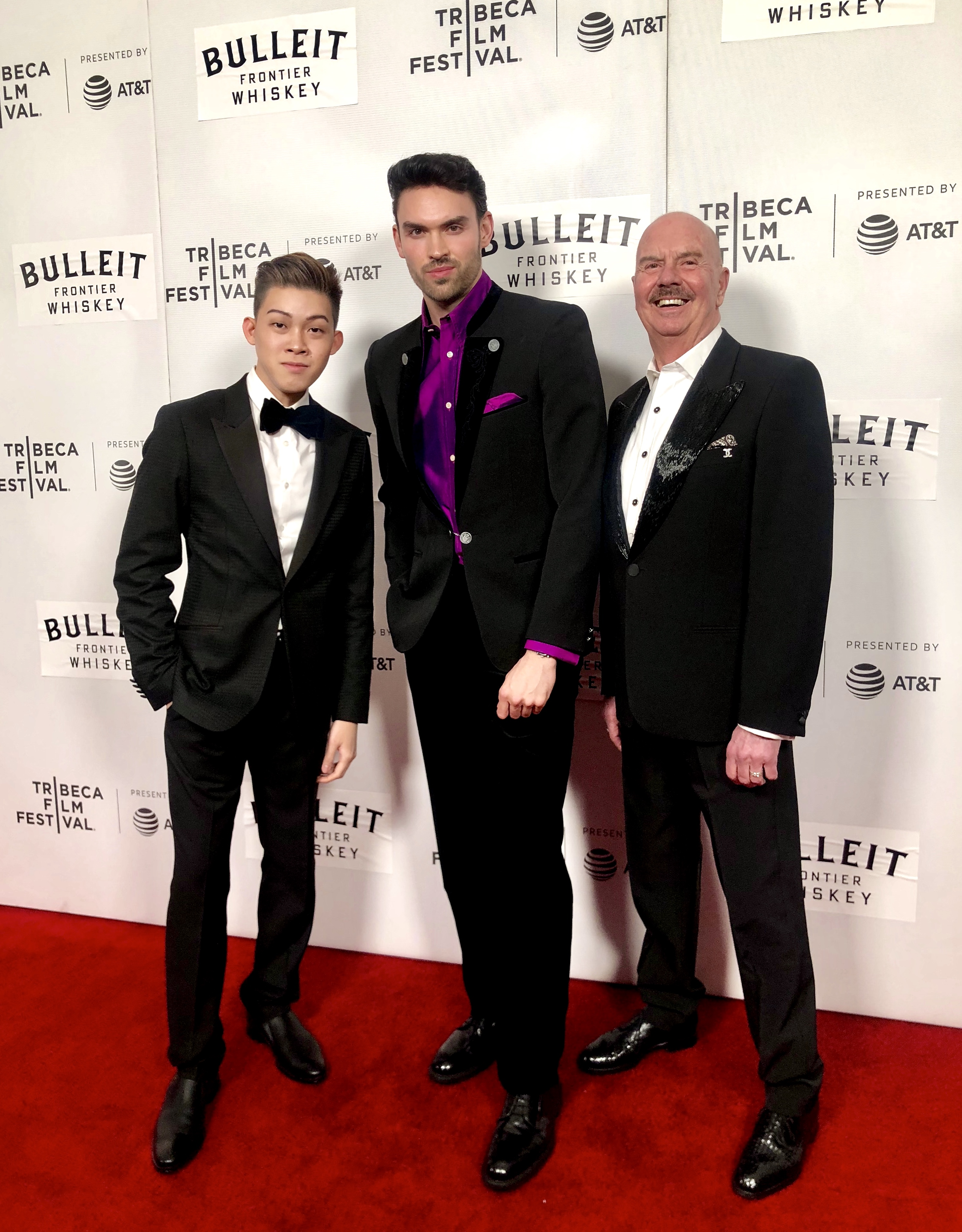 Darius with Arron and Philip at Tribeca Film Festival 2019